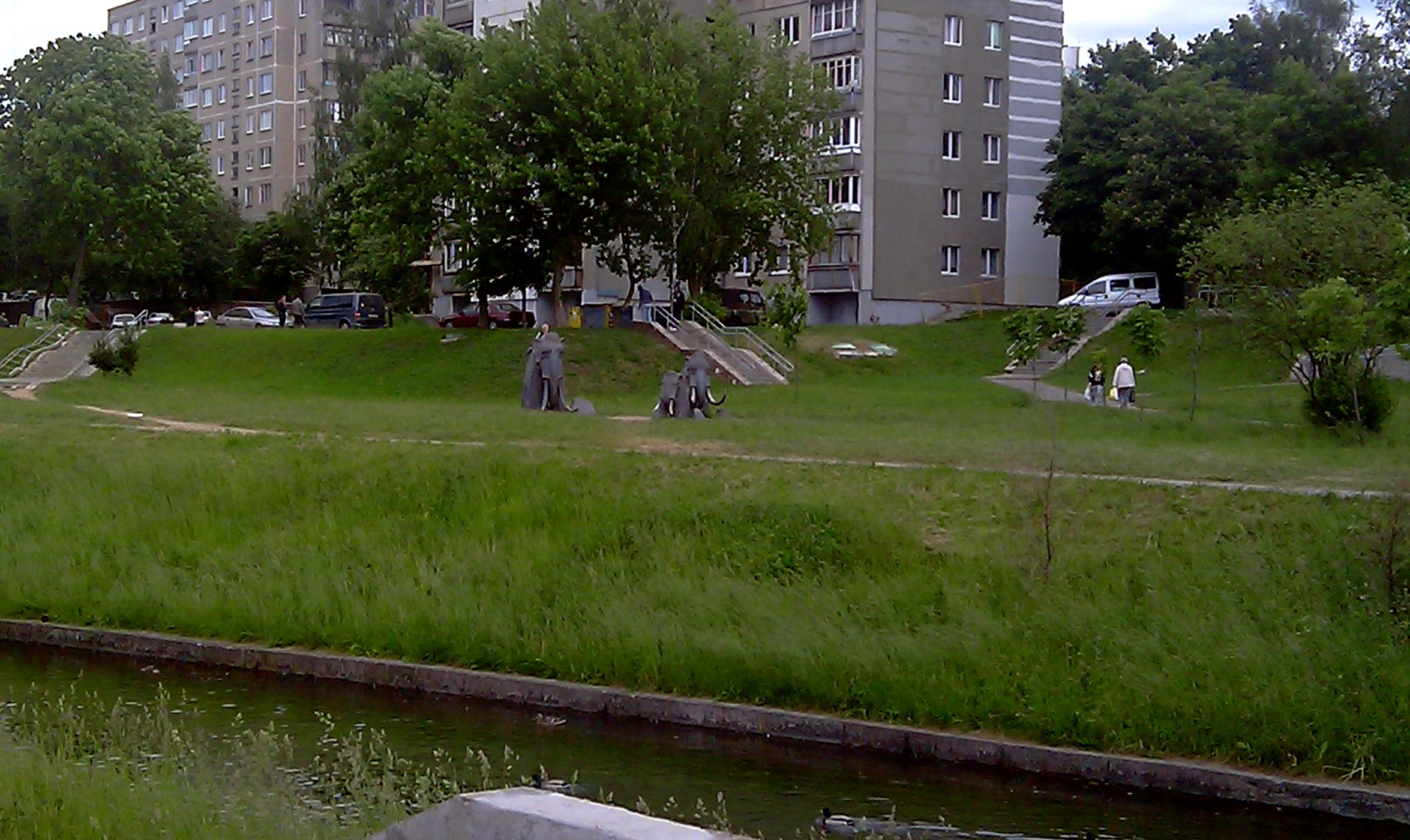 Sculptures of mammoths on Slavinski Street in the Minsk district East